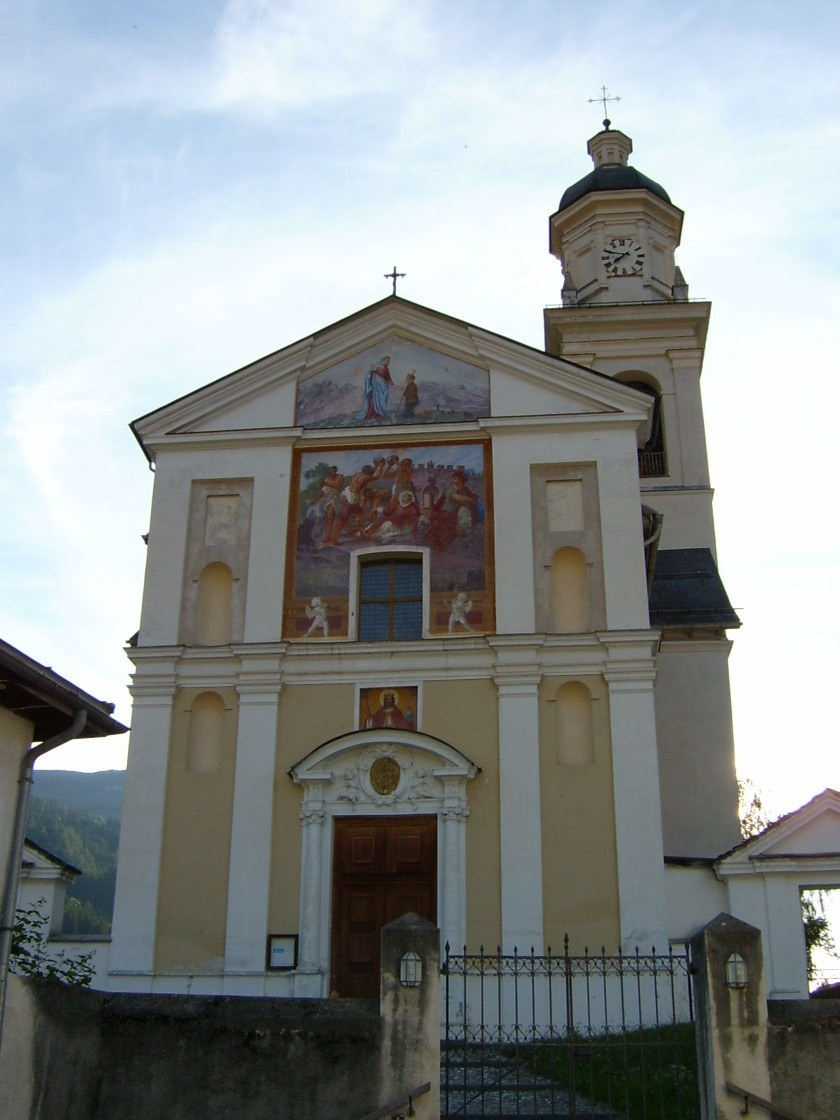 Parish Church of St. Stephan, Tiefencastel, Switzerland